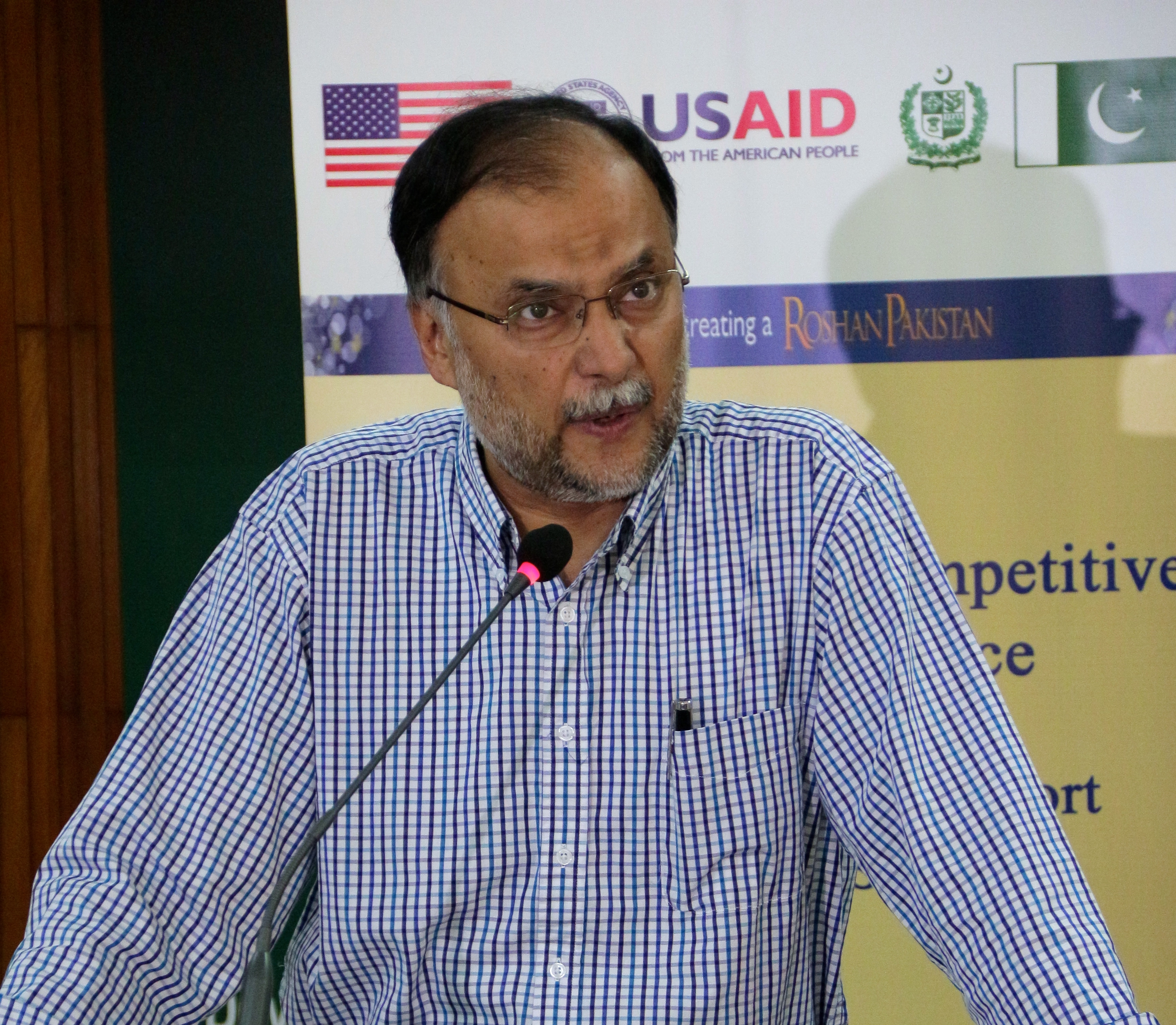 Ahsan Iqbal